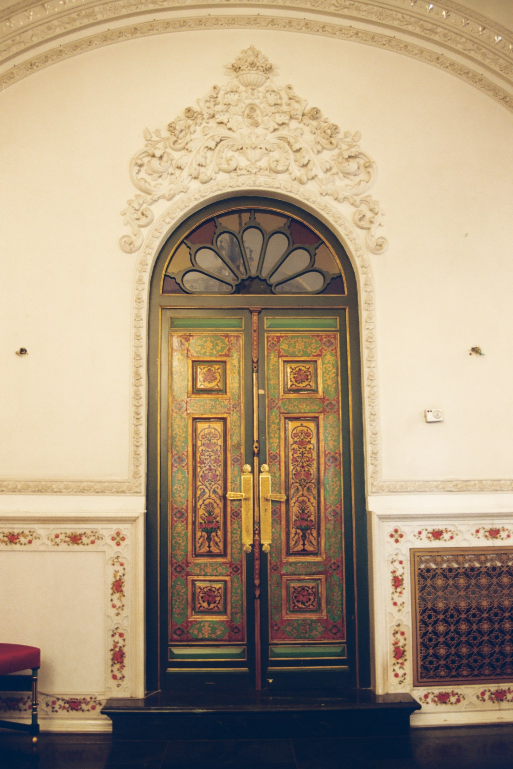 One of doors inside Tehran's Niavaran palace, taken by Mani Parsa in 2004.